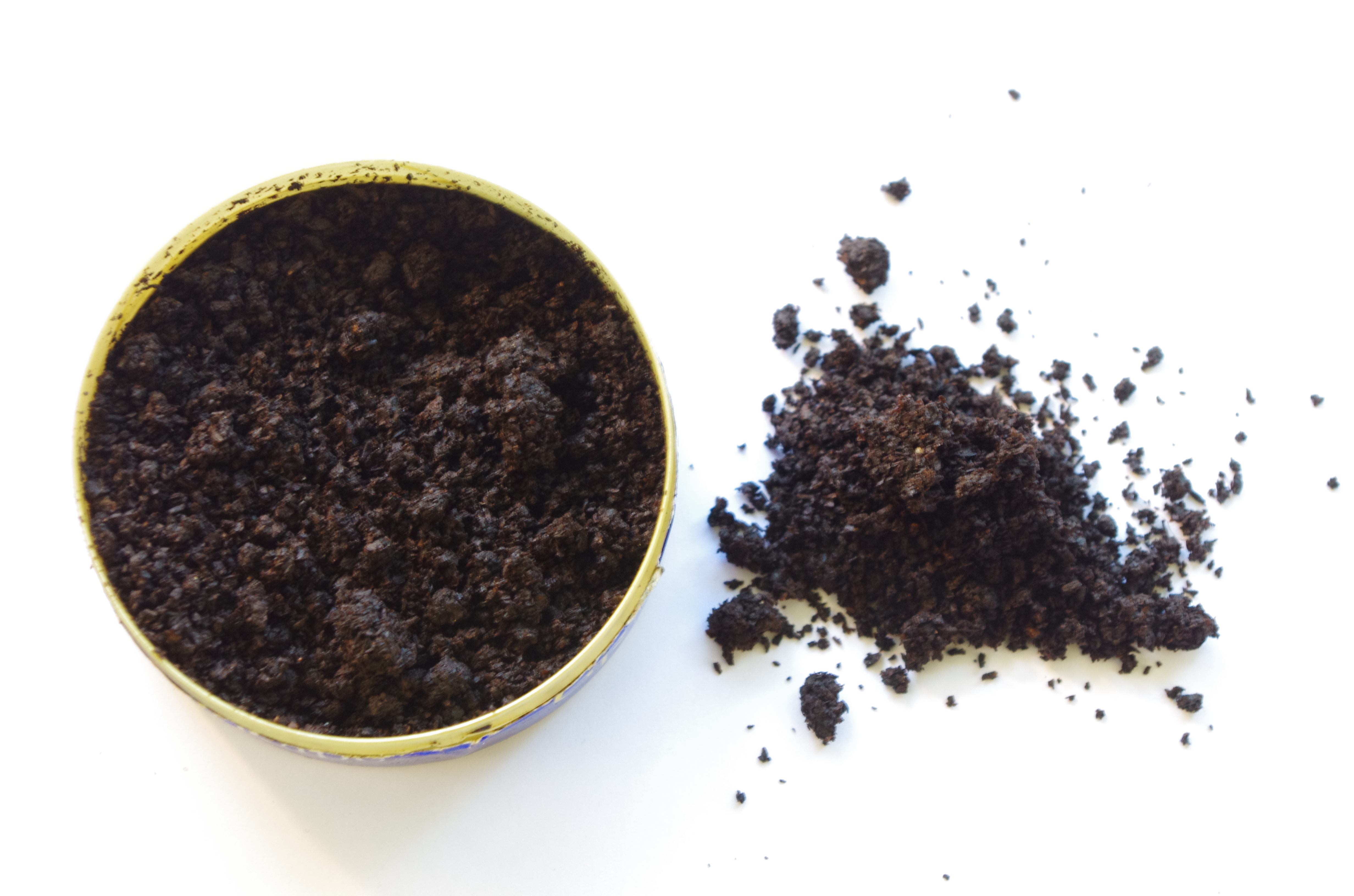 Wet snuff (snus)